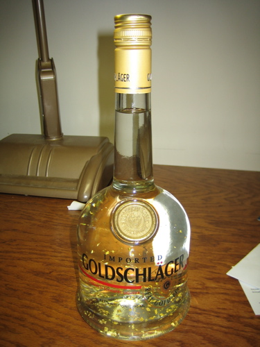 A picture of a bottle of Goldschläger taken by myself